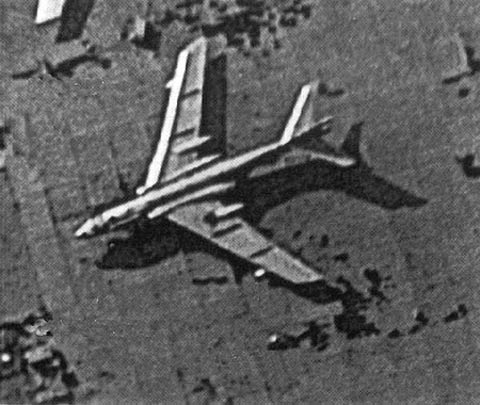 KH-11 image of a Tu-16 derived (Xian H-6) Chinese jet bomber.